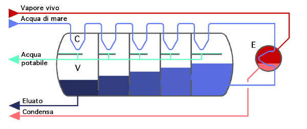 Schematic of a multiflash evaporator (Italian)